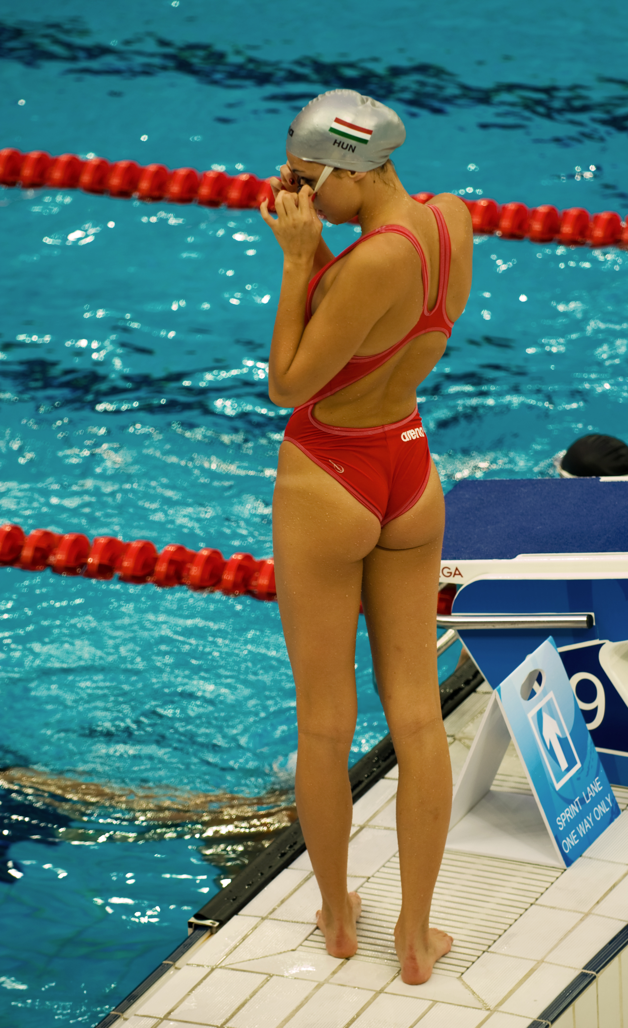 Eva Dobar, a Hungarian swimmer preps for her 50m freestyle heat at the Beijing Olympics.